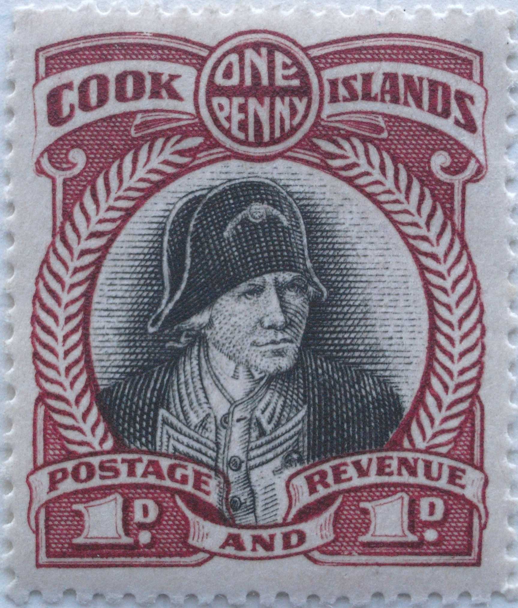 See title description